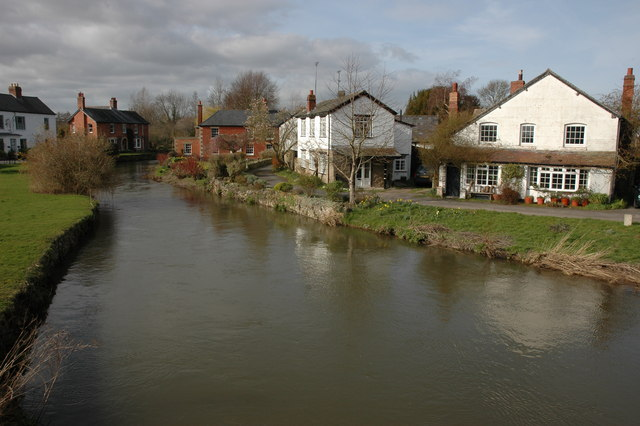 The river Arrow, Eardisland The river Arrow flowing through the picturesque village of Eardisland.